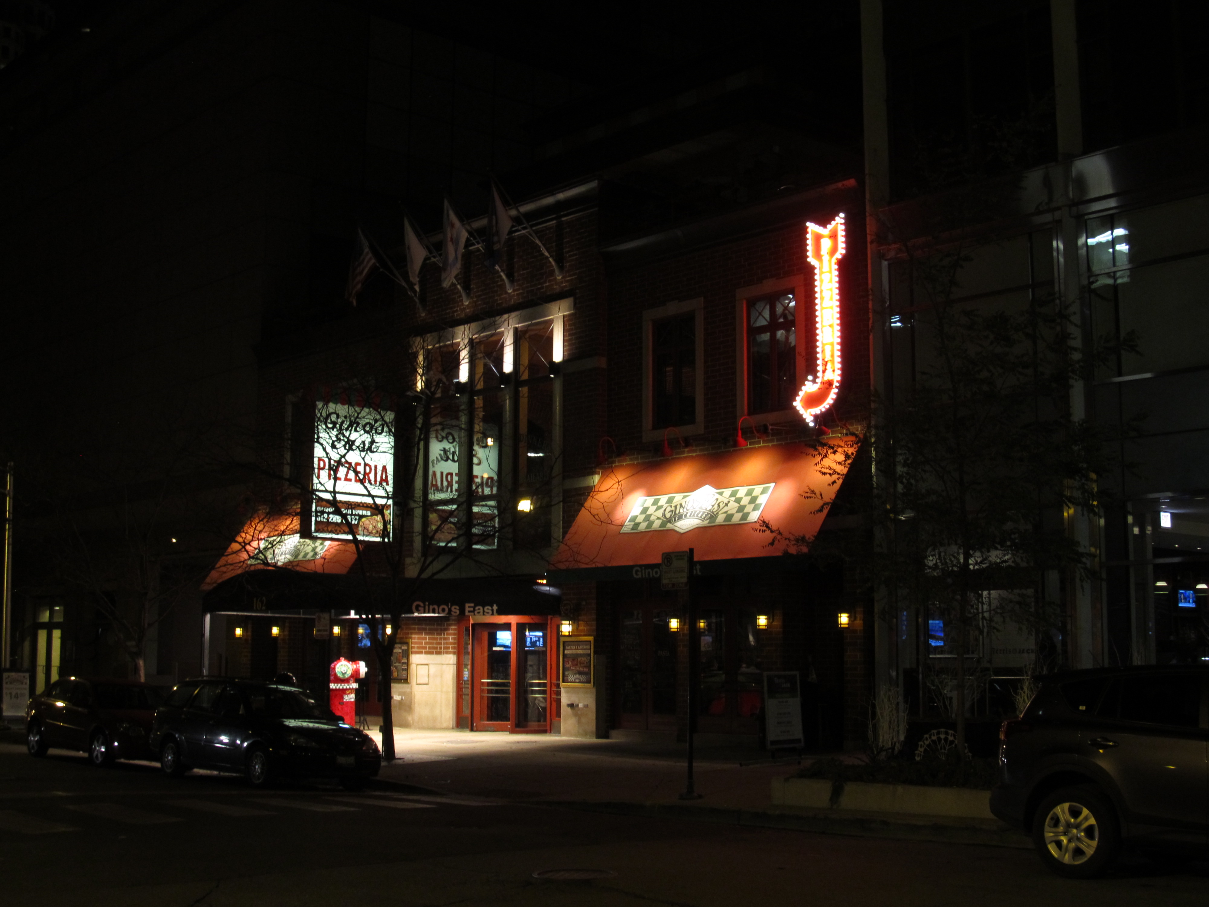 Gino's East is a Chicago-based restaurant chain, notable for its deep-dish pizza (sometimes called Chicago-style pizza), and for its interior walls, which patrons have covered in graffiti and etchings. The restaurant features deep-dish pizza baked in cast-iron pans, as well as sandwiches, soups and salads. The original Gino's East was opened in 1966 by two taxi drivers, Sam Levine and Fred Bartoli, and a friend, George Loverde. The deep dish pizza is cooked with the cheese on the bottom, then the toppings and then the sauce. The original location of the restaurant was at 160 East Superior Street, just east of Michigan Avenue, in the Streeterville district of Chicago.